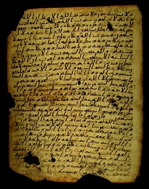 Qur'anic Manuscript written in Hijazi script. It contains the beginnings of a simple decorative technique in the form of floral/foliar ornaments used to separate the verses (dark red and blue were used to colour this decorative figure). From the end of verse 73 to 88 and part of 89 of Surah al-Nahl. Script: Hijazi. Location: Maktabat al-Jami‘ al-Kabir, Sanaa (Yemen).